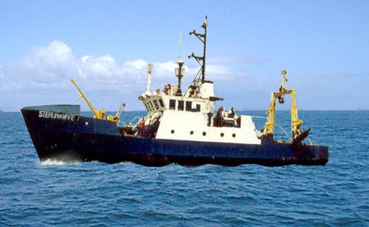 Oceanographic research romanian ship "Steaua de Mare I"